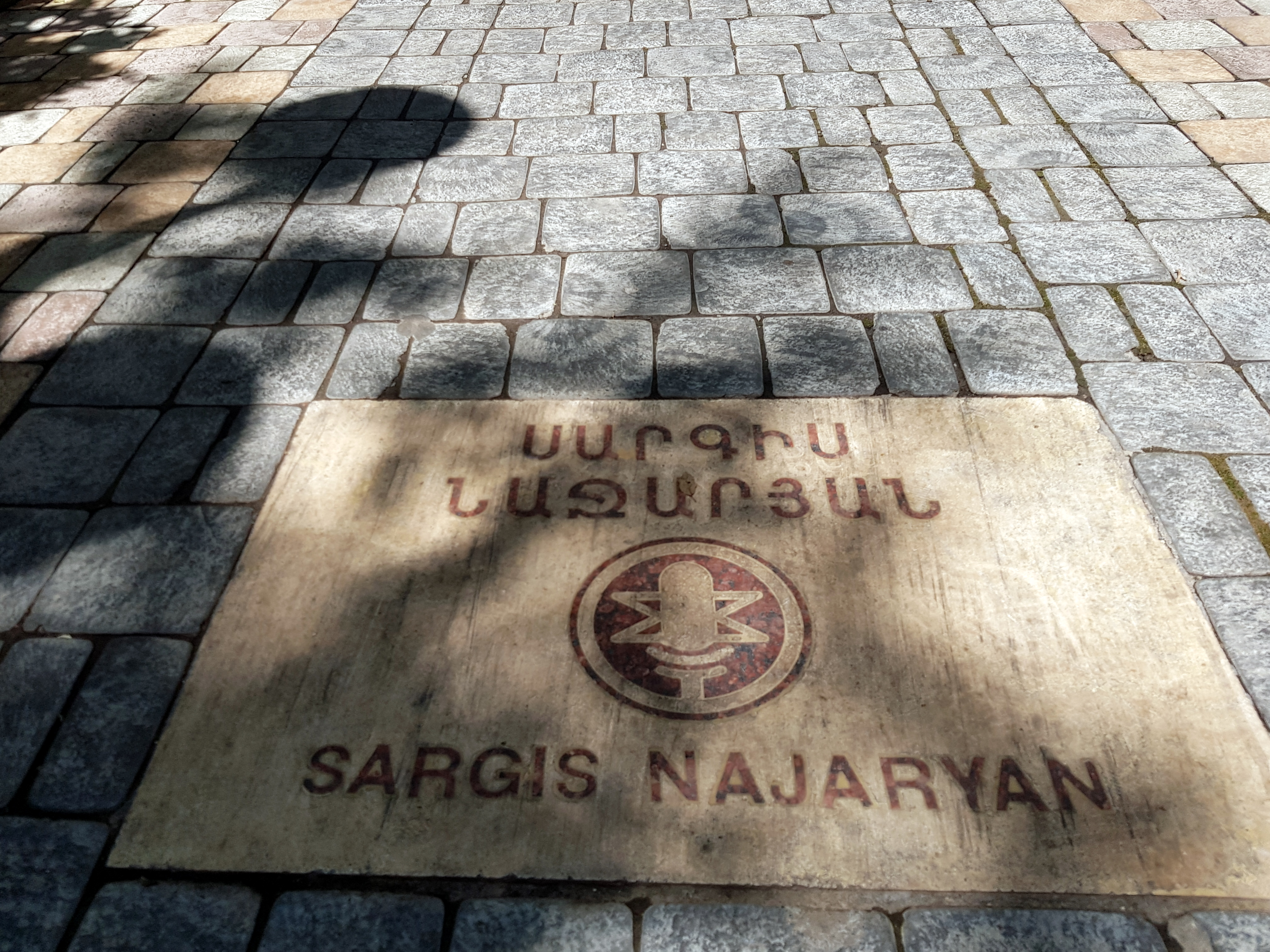 Alley of Devotees, Yerevan. Plaque named after Sarkis Najaryan